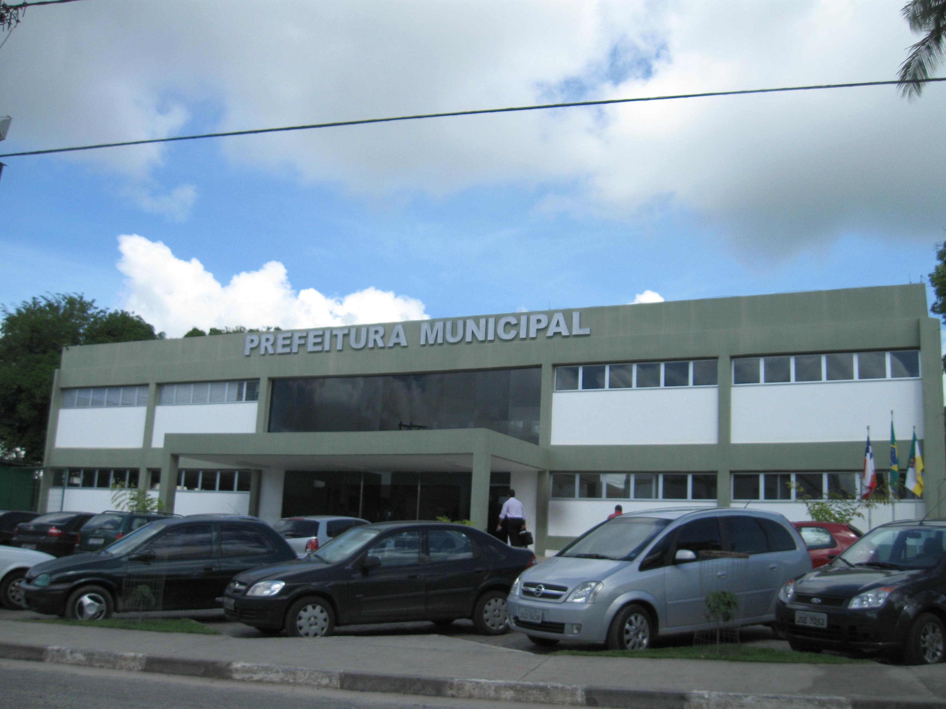 Mata de São João's city hall.